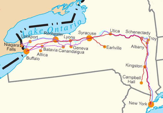 Water Level Routes of the New York Central Railroad, West Shore Railroad and Erie Canal on Image:US state outline map.png. See Image:Water Level Route on US map.png for the full U.S.